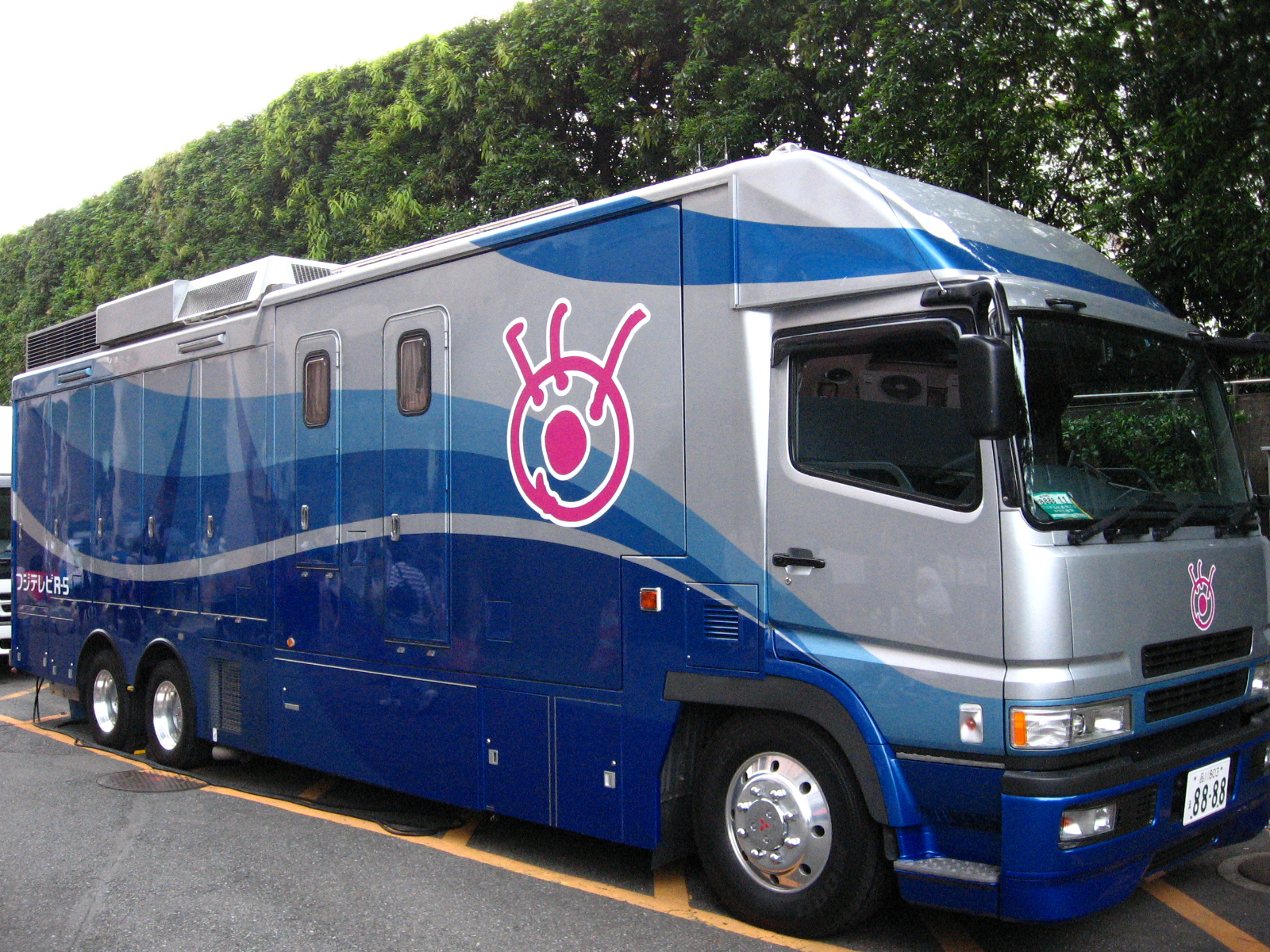 Fuji Television outside broadcasting van R-5.